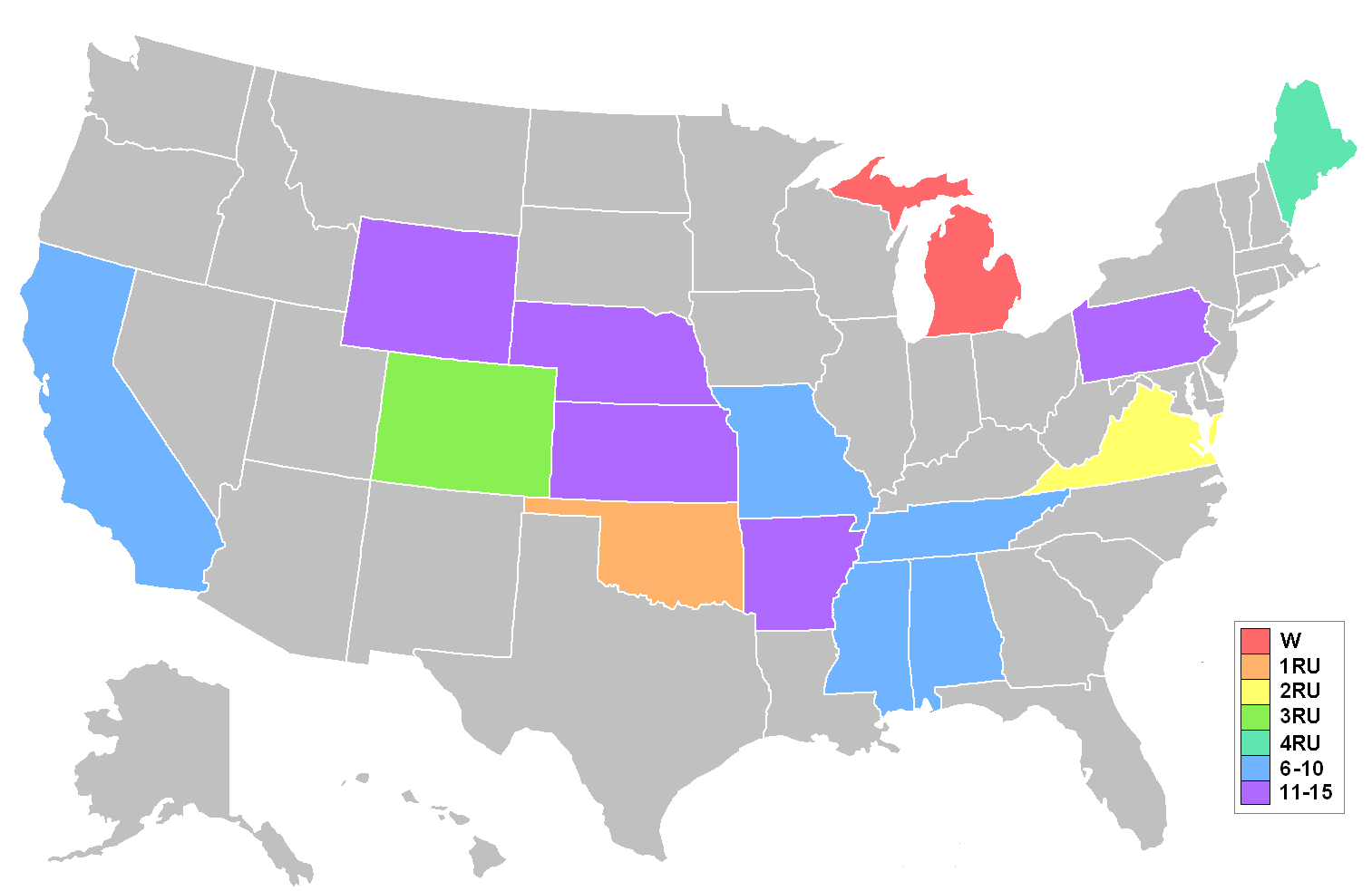 Map showing placements at the Miss USA 2010 pageant. Key on graphic shows colour coding for break down of placements.